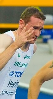 Paul Hession at the 200 m semi final Berlin 2009